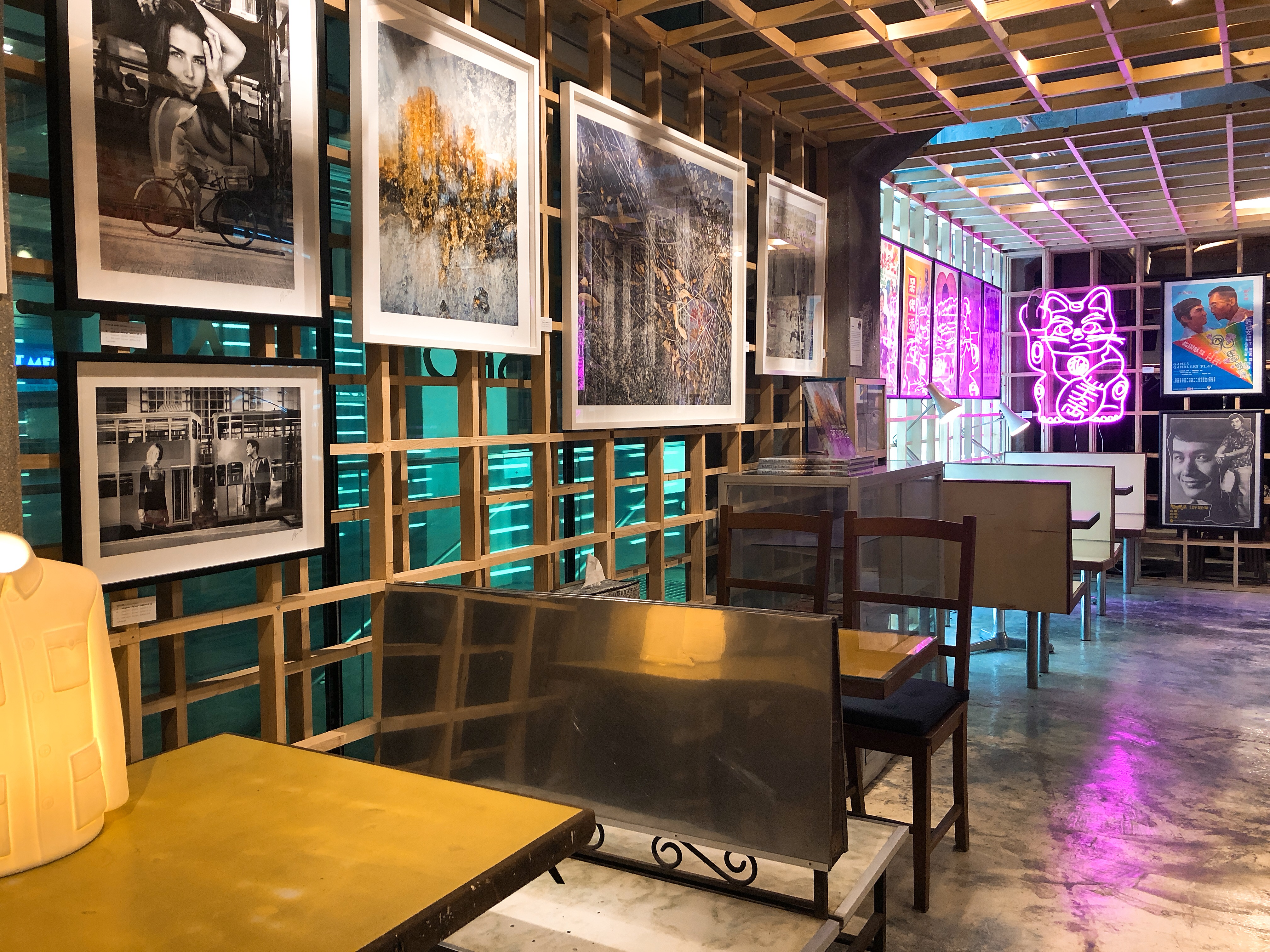 The Mess - snack canteen at the G.O.D. PMQ concept store which includes an art gallery/shop.